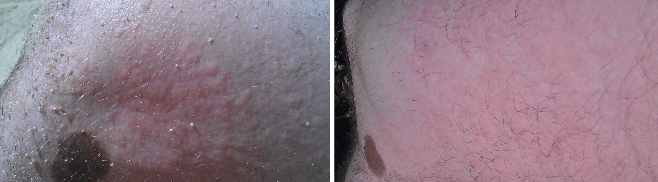 Urticaria on leg resulting from immersion in cold water.